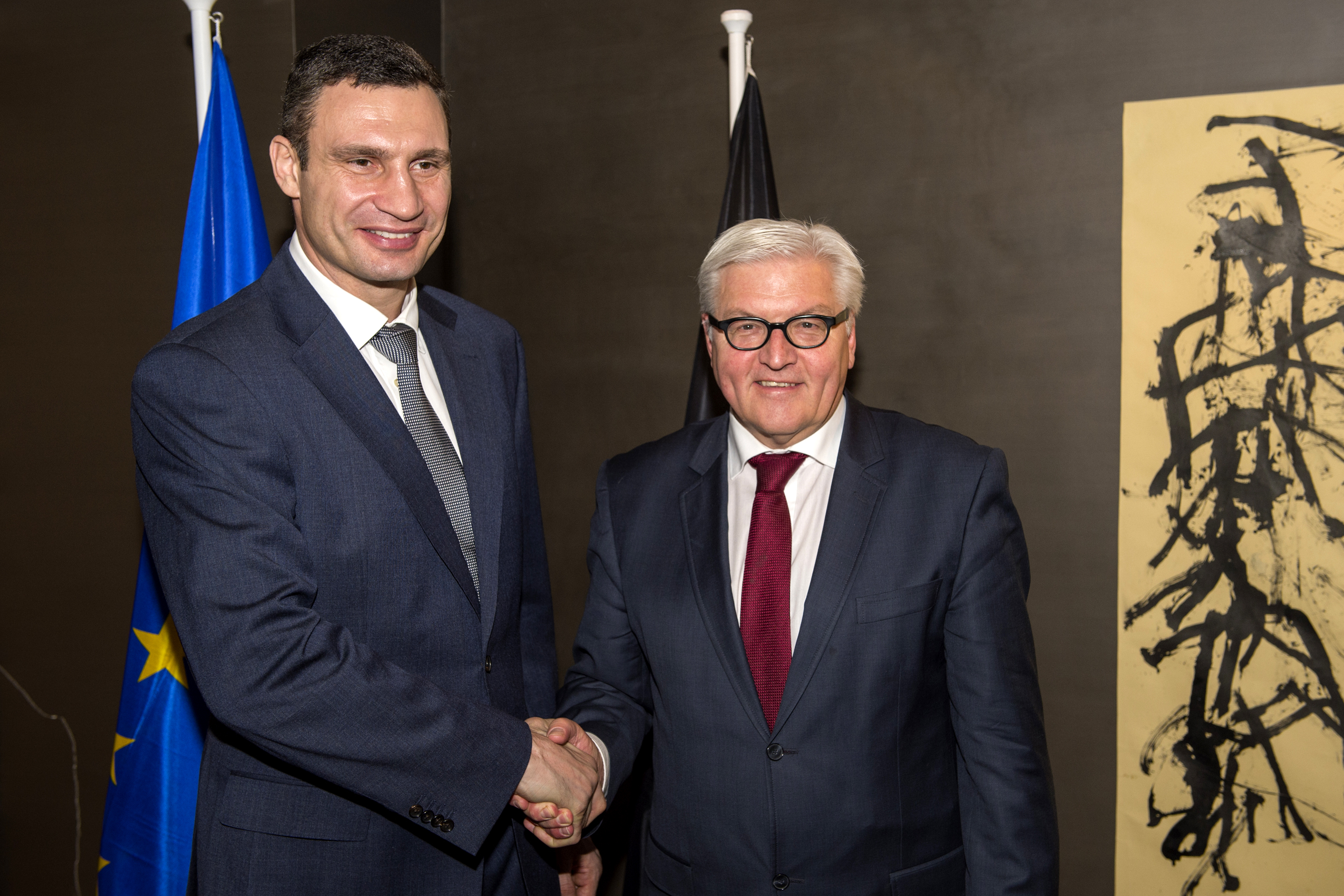 50th Munich Security Conference 2014: Vitali Klychko and Frank-Walter Steinmeier: Vitali Klychko (Party Chairman, Ukrainian Democratic Alliance for Reforms) and Frank-Walter Steinmeier (Federal Minister of Foreign Affairs, Federal Republic of Germany).